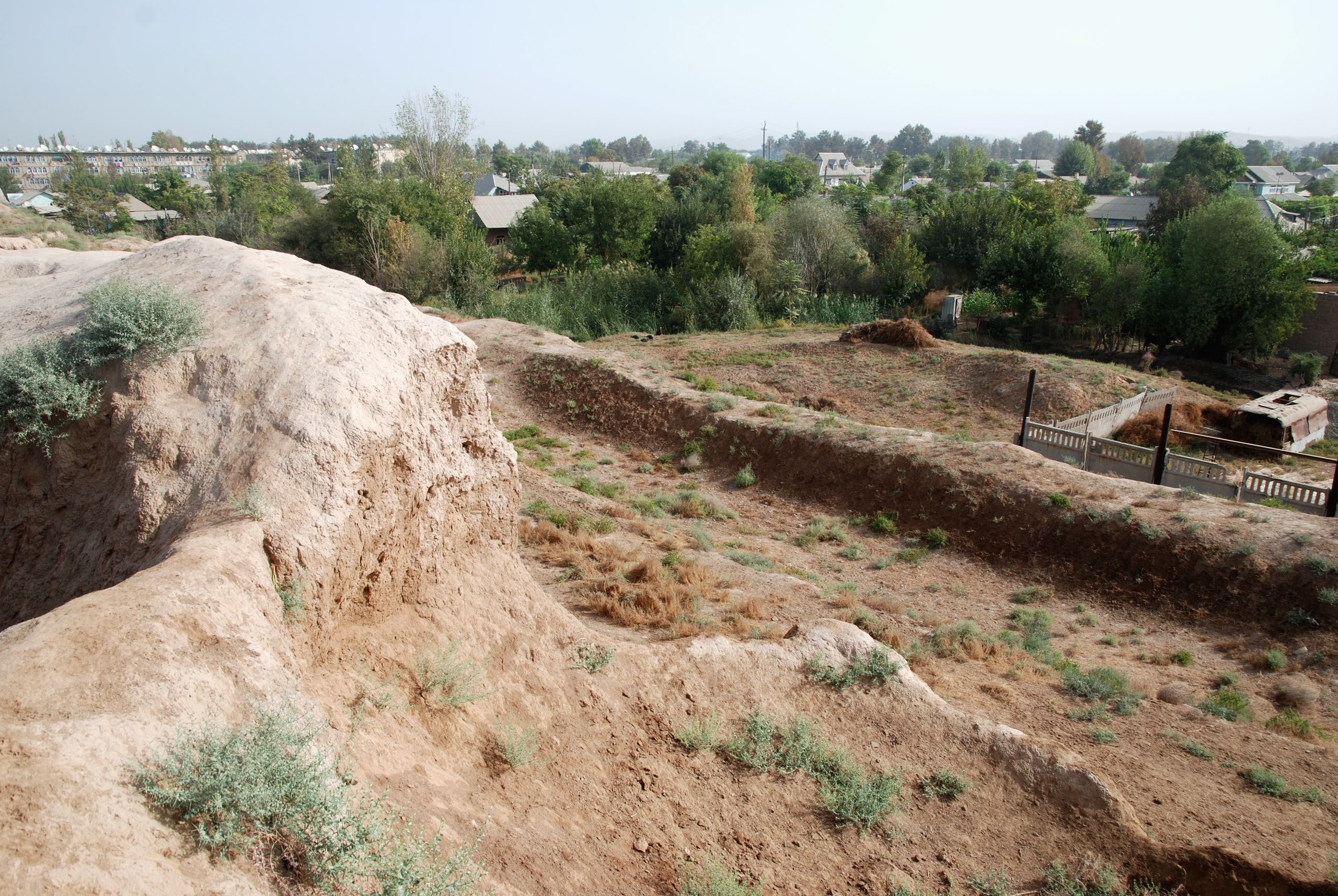 Kafyr Kala, citadel, Kolkhozobod